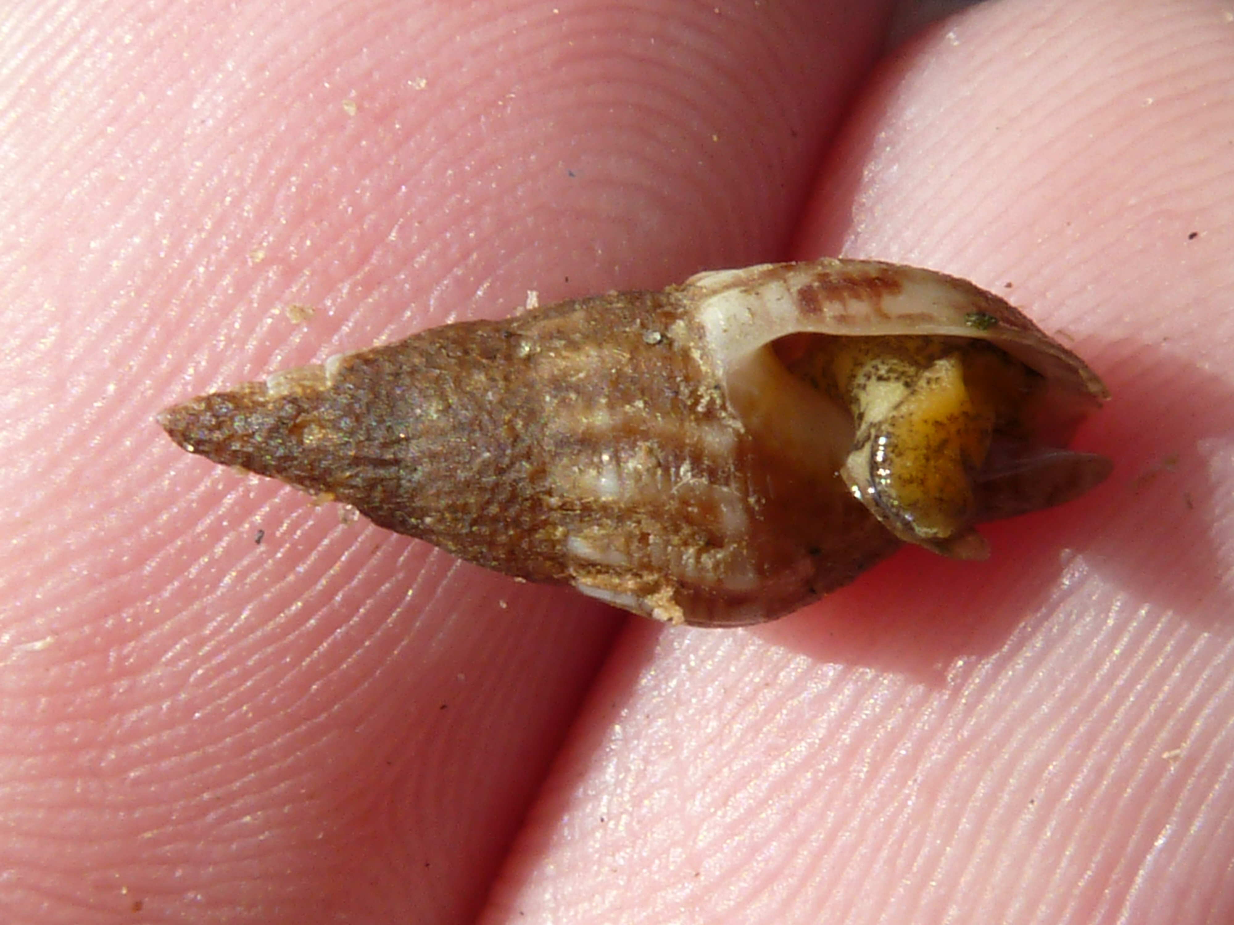 Live Columbellid, Cotonopsis lafresnayi, Costoanachis translirata in trawl on RV Gemma, during BioBlitz at TDWG 2010. Portion of foot visible in aperture. p1000129